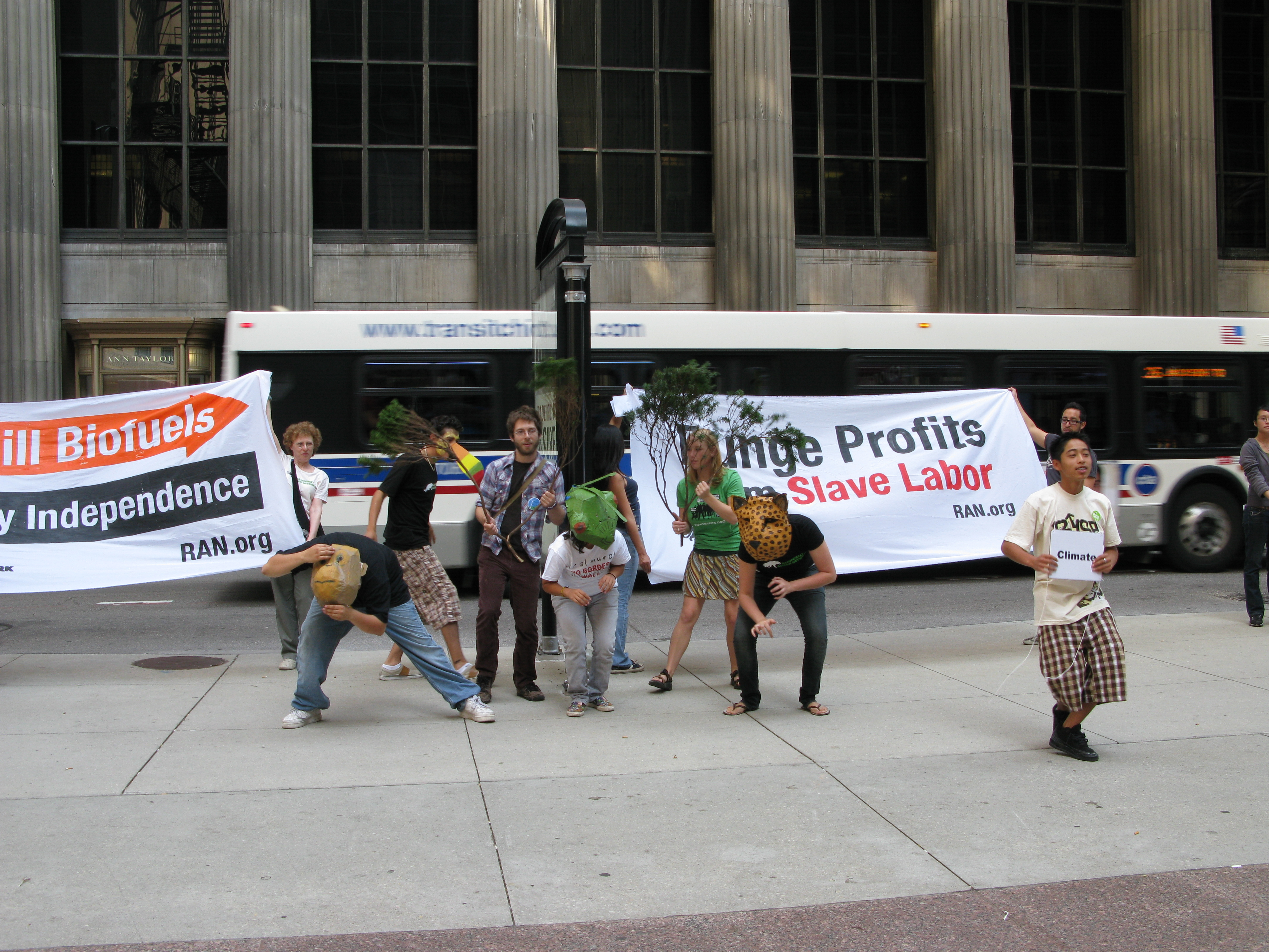 Rainforest Action Network activists, protesting the expansion of palm oil and soy plantations into critical ecosystems, near Chicago Board of Trade.